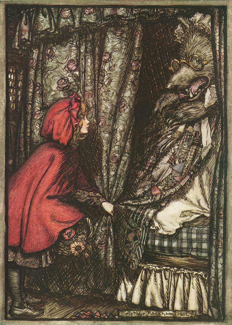 illustration to a fairy tale "Little_Red_Riding_Hood"